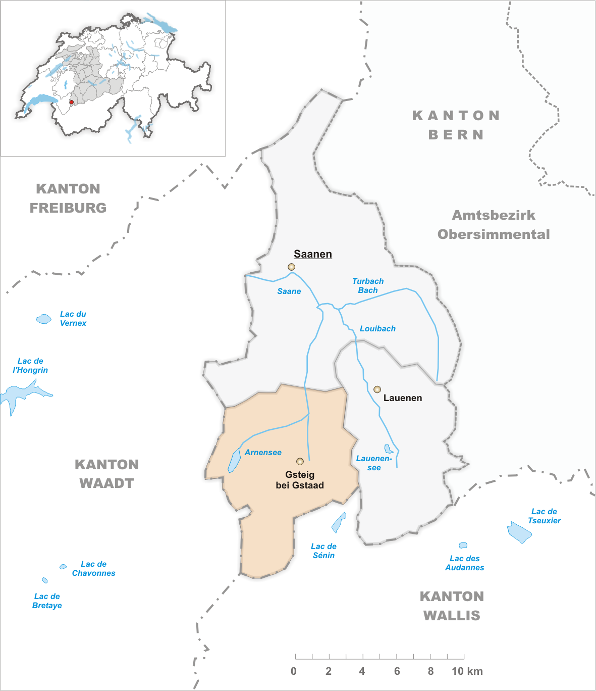 Municipality Gsteig bei Gstaad